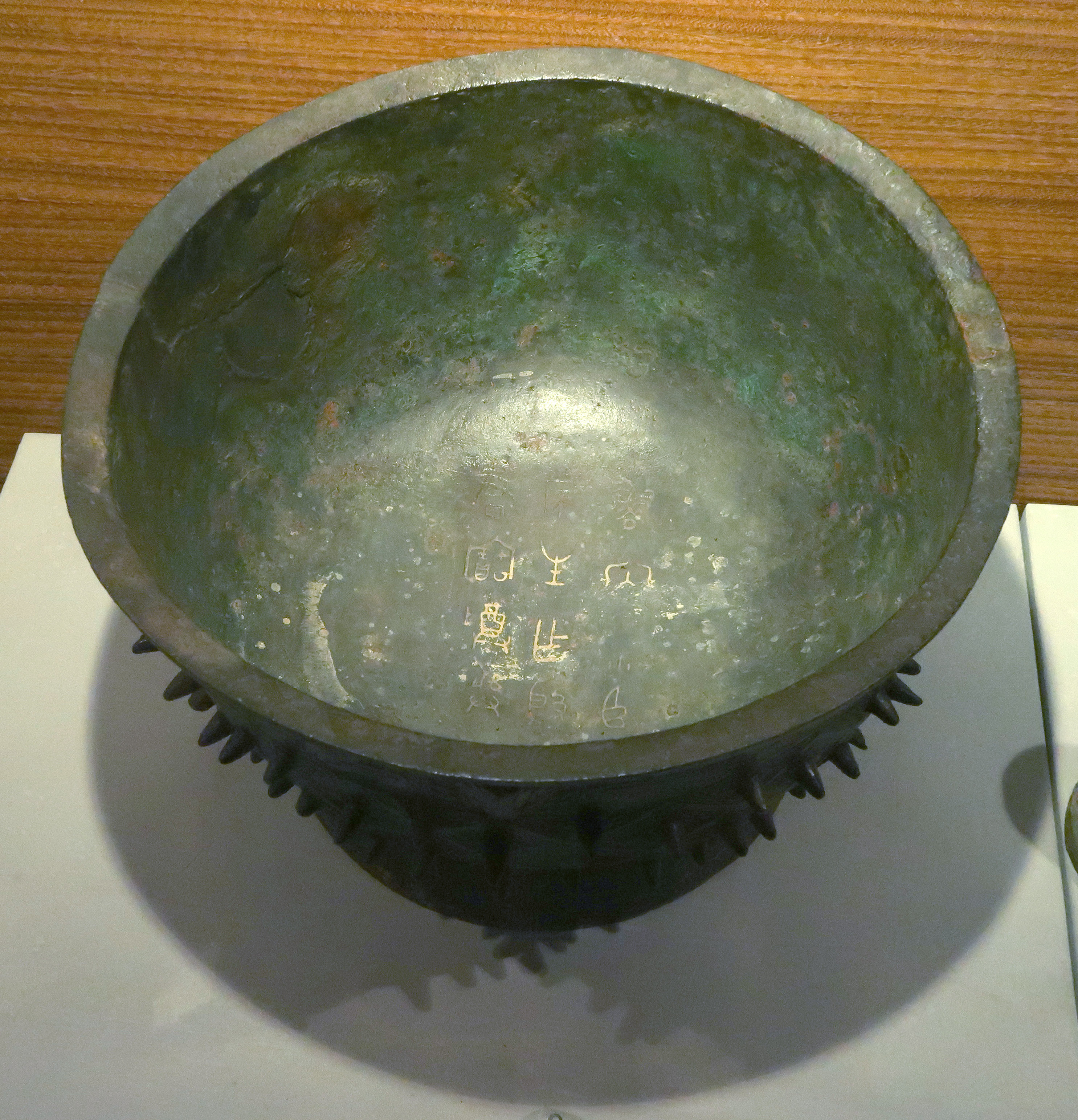 Gui (vessel) with inscription. Late Shang. Toulon Asian Arts Museum